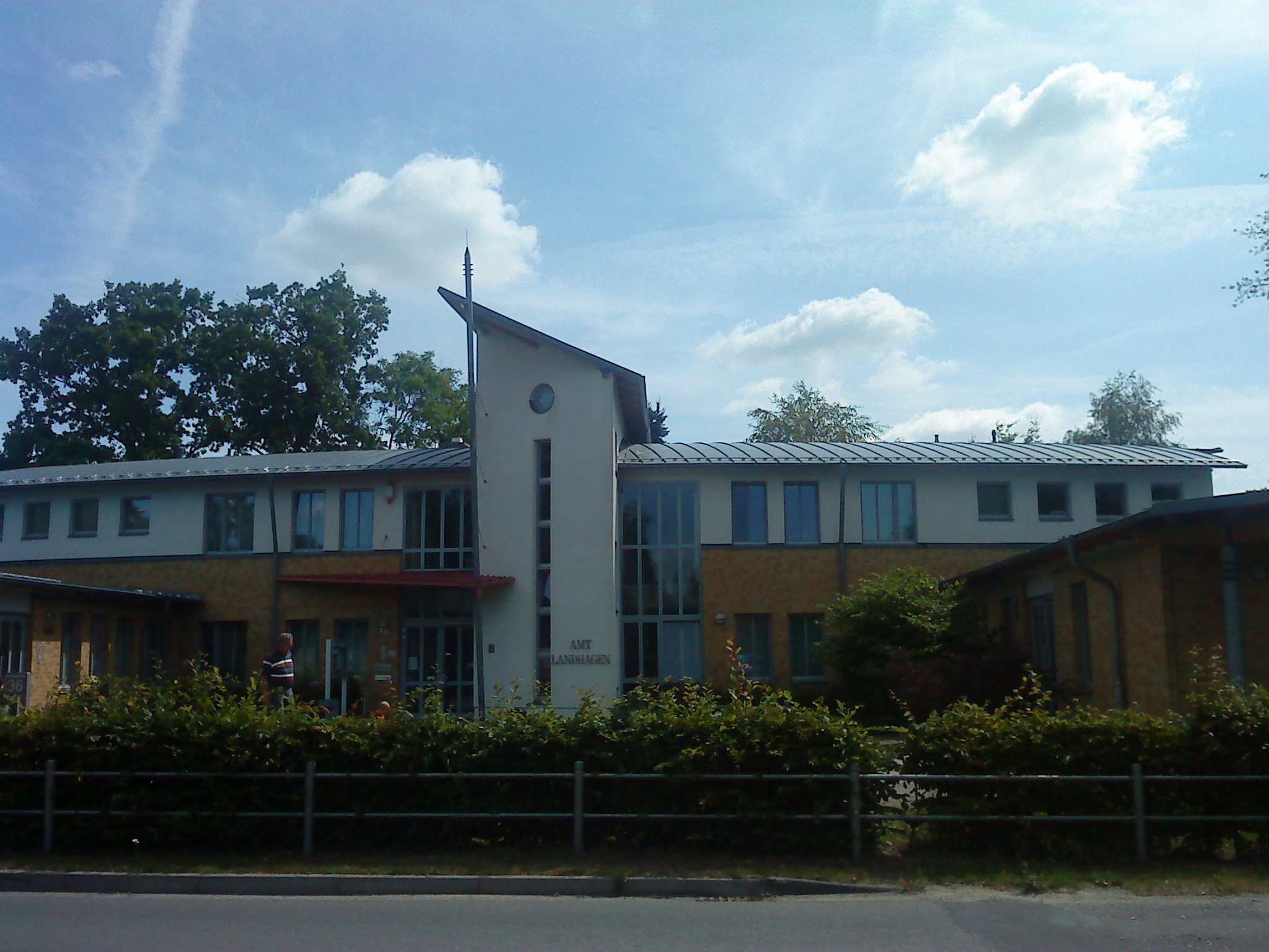 Amt Landhagen, seat